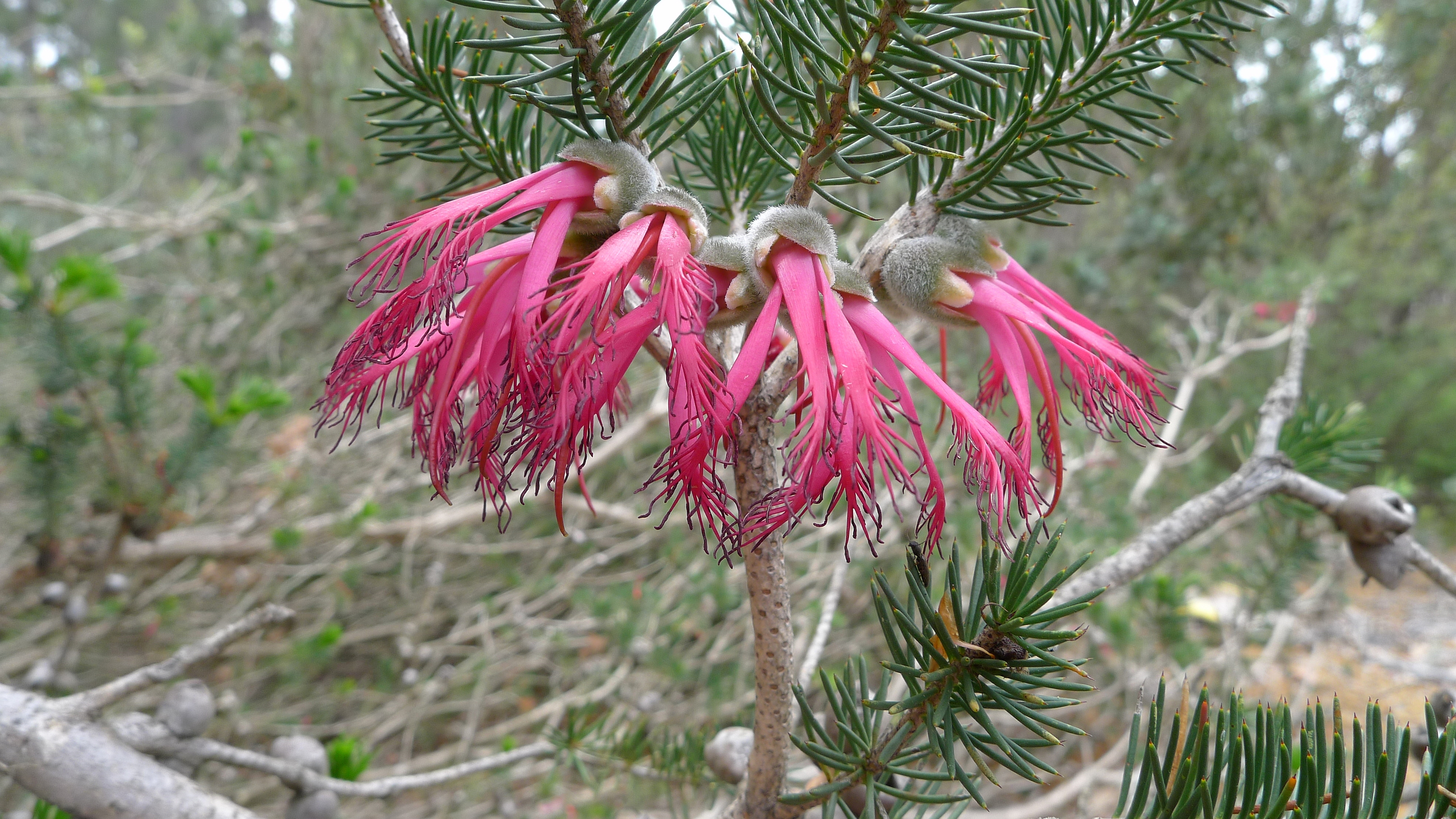 Mouse Ears, possibly Calothamnus rupestris. Jarrahdale State Forest, Western Australia, November 2011.